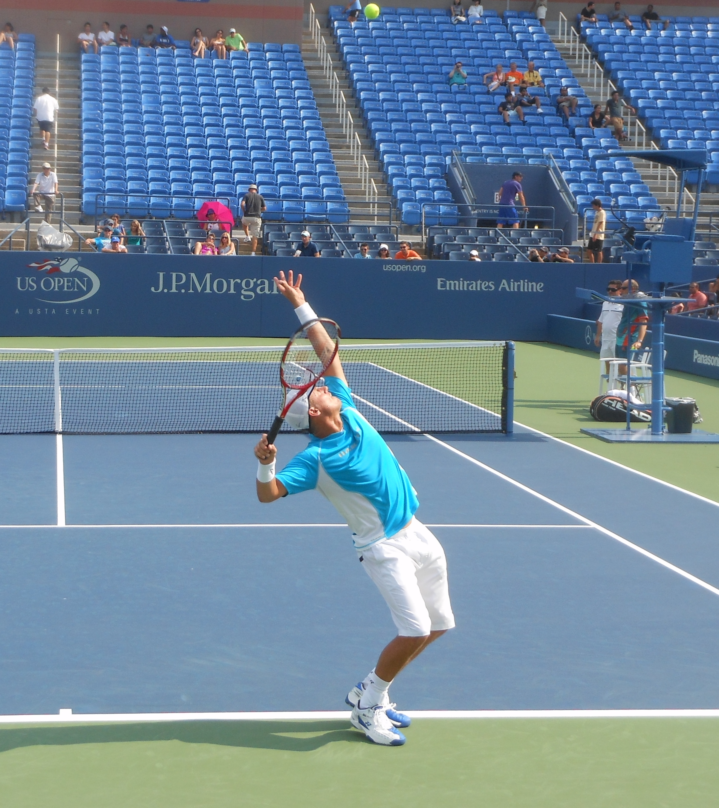 Hewitt 2013 US Open